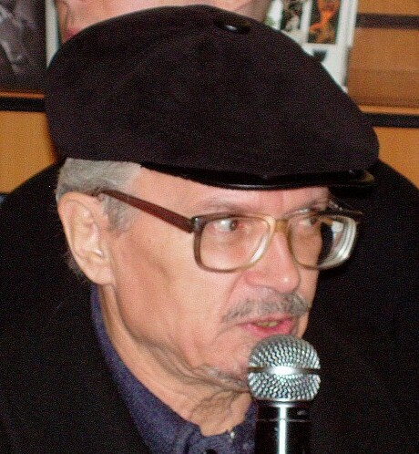 Eduard Limonov on presentation of his book «Дети гламурного рая»